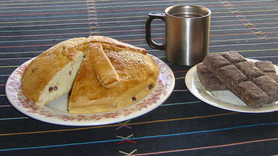 Birthday bread and chocolate, typical of Guatemala